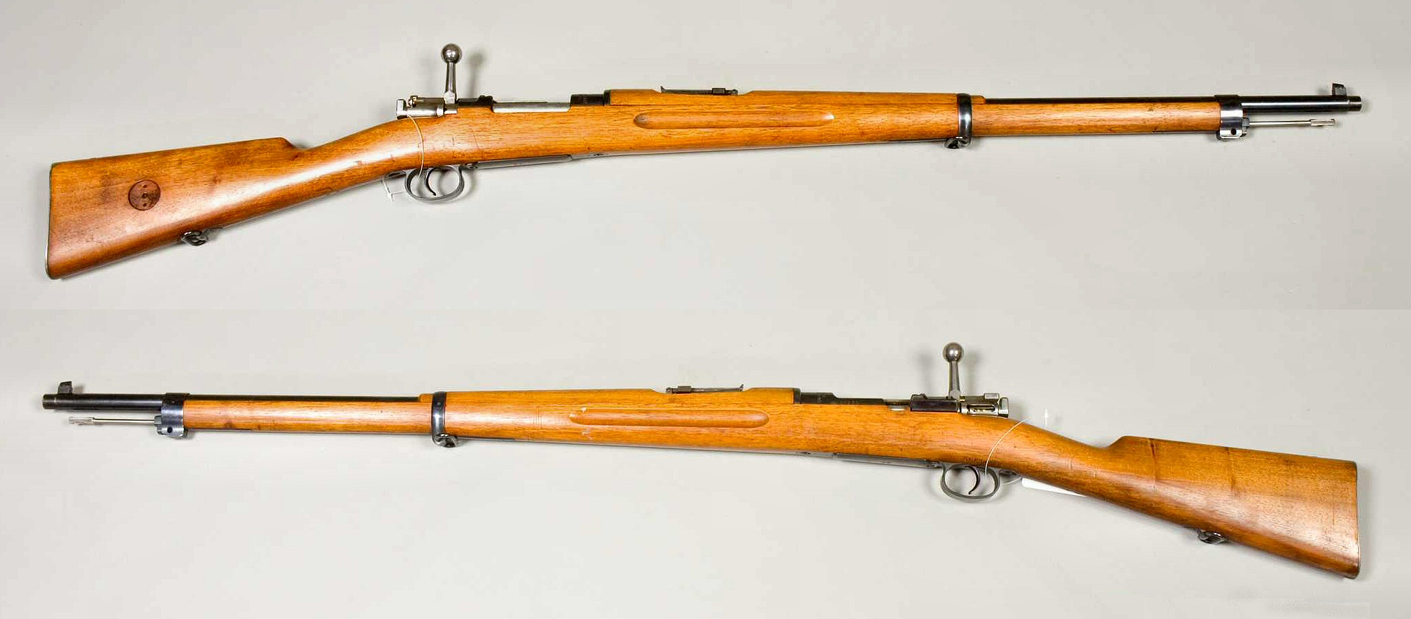 Swedish Mauser rifle Model 1896, made by Carl Gustafs Stads Gevärsfaktori, Sweden. Caliber 6.5x55mm. Modellexemplar (pattern) approved 20 March 1896. From the collection of Armémuseum (Swedish Army Museum), Stockholm